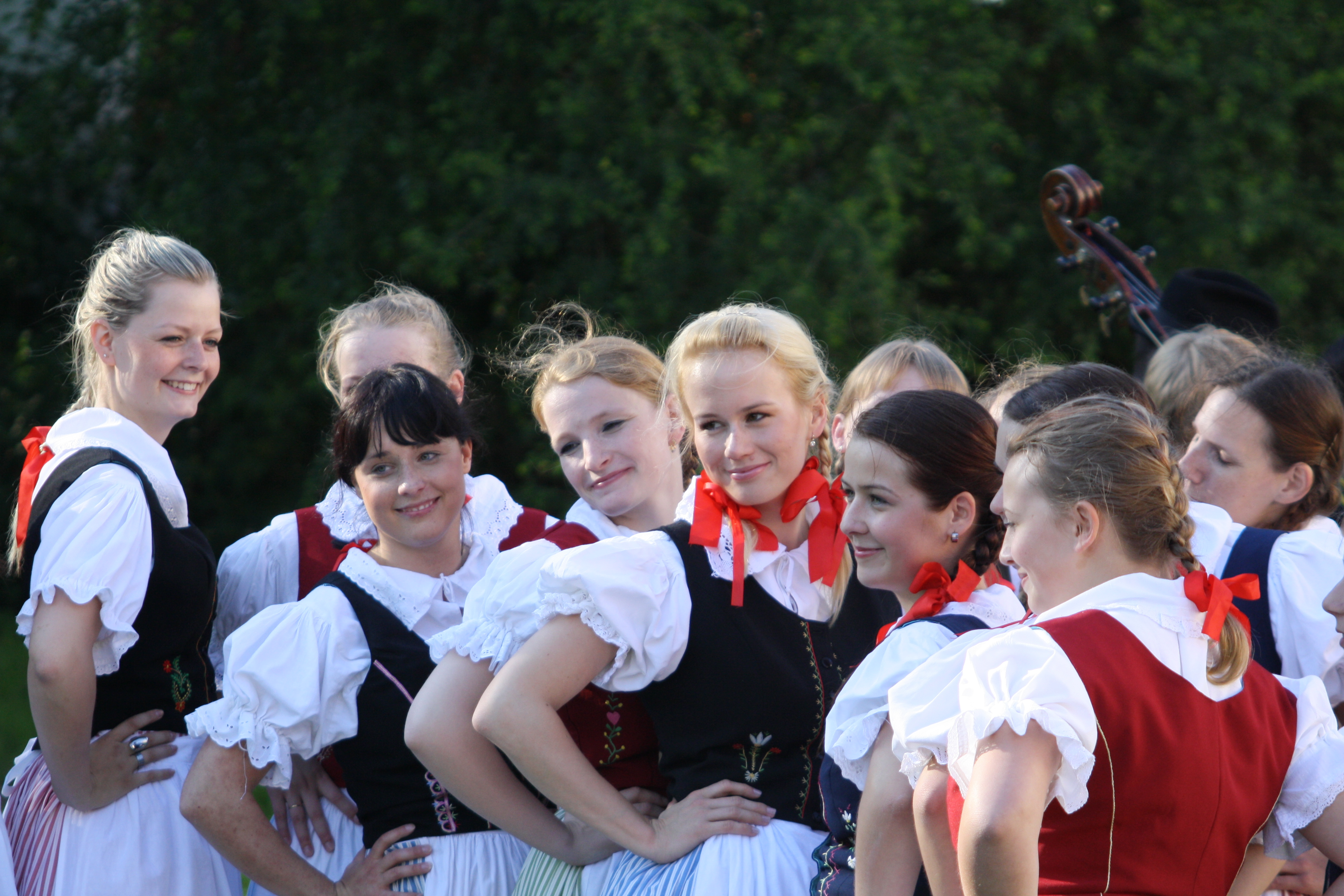 Horácko national costumes of Baudyš group in Třebíč, Czech Republic.